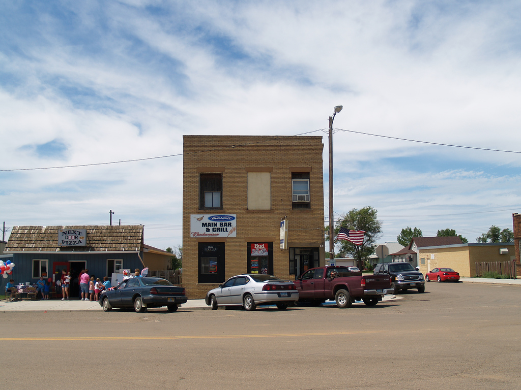 Scranton, North Dakota. From .